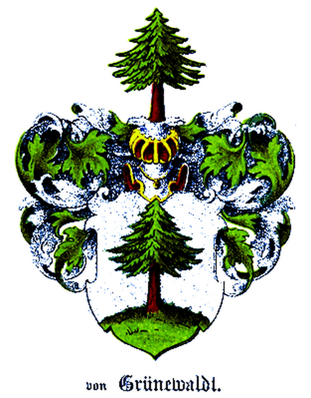 Coat of arms of Gruenewaldt family